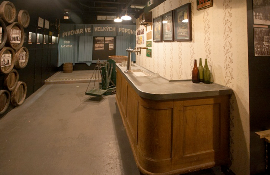 Предметы старины - неотъемлемая часть музея.